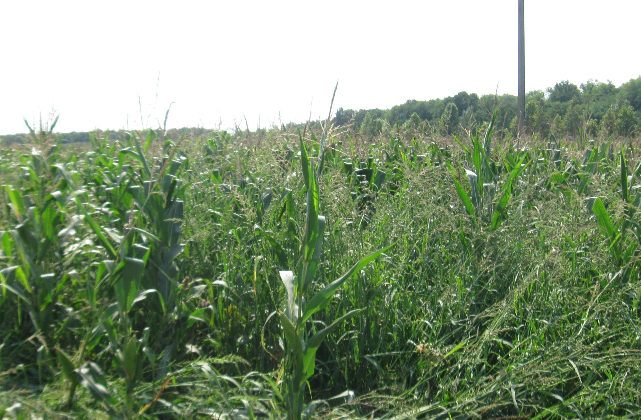 Maize field heavily infested with Echinochloa crus-galli.